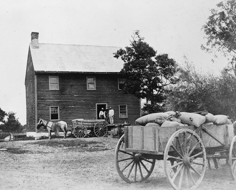 Old mill in Noxontown - Delaware. South of Middletown off Delaware Route 71. Listed on the NRHP on July 2, 1973. — NRHP listing is for "Noxontown" which is this building and maybe one other in the "town". Image courtesy of the Historic American Building Survey—HABS archives.